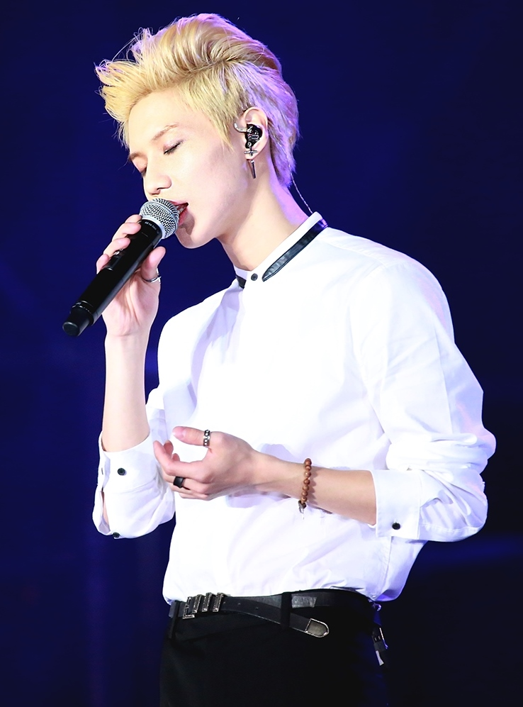 Lee Tae-min at the SMTown Live World Tour IV in Taiwan in Mach 21, 2015.Português do Brasil: Lee Tae-min na SMTown Live World Tour IV in Taiwan em 21 de março de 2015.